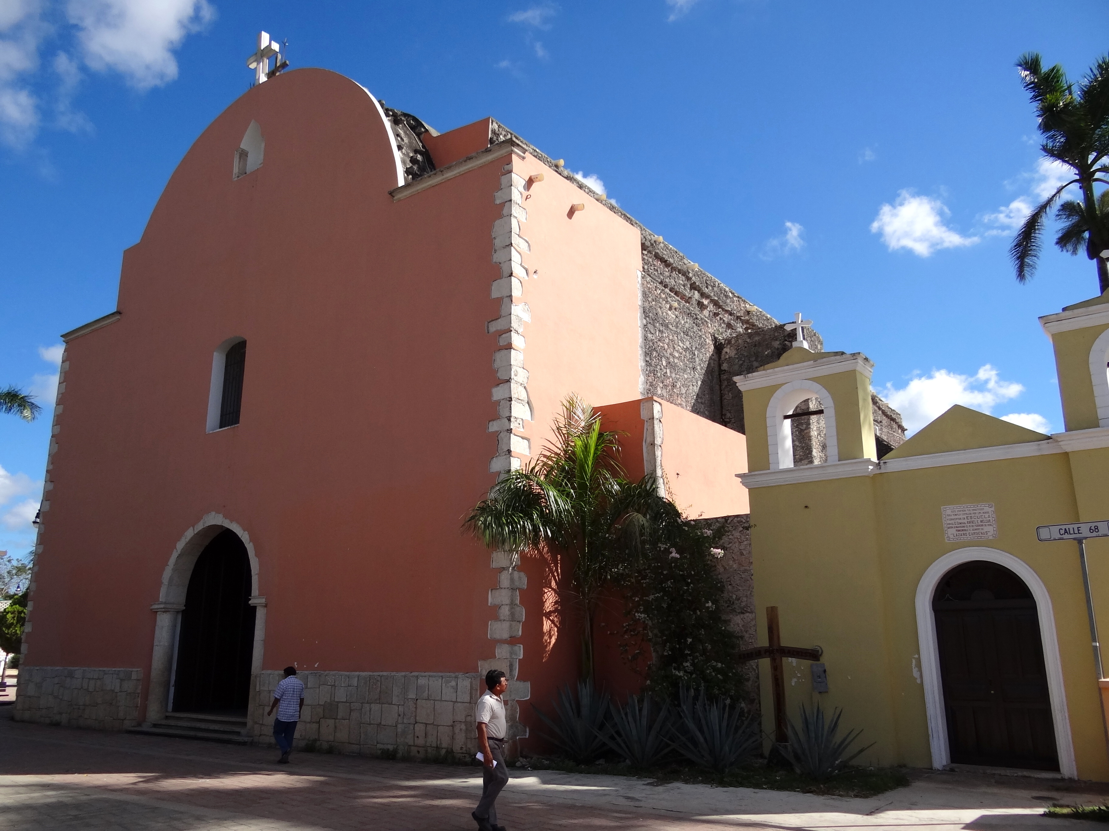 Balam Na - Mayan Center Converted to Church - Felipe Carrillo Puerto (Former Chan Santa Cruz) - Quintana Roo - Mexico - 02